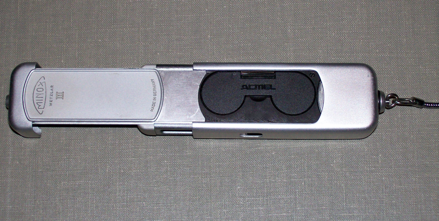 Minox IIIs w film